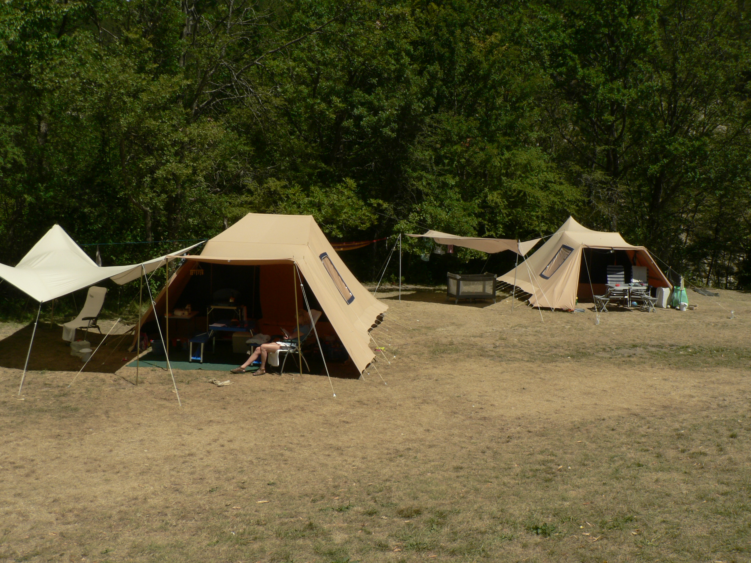 Pyramidtent